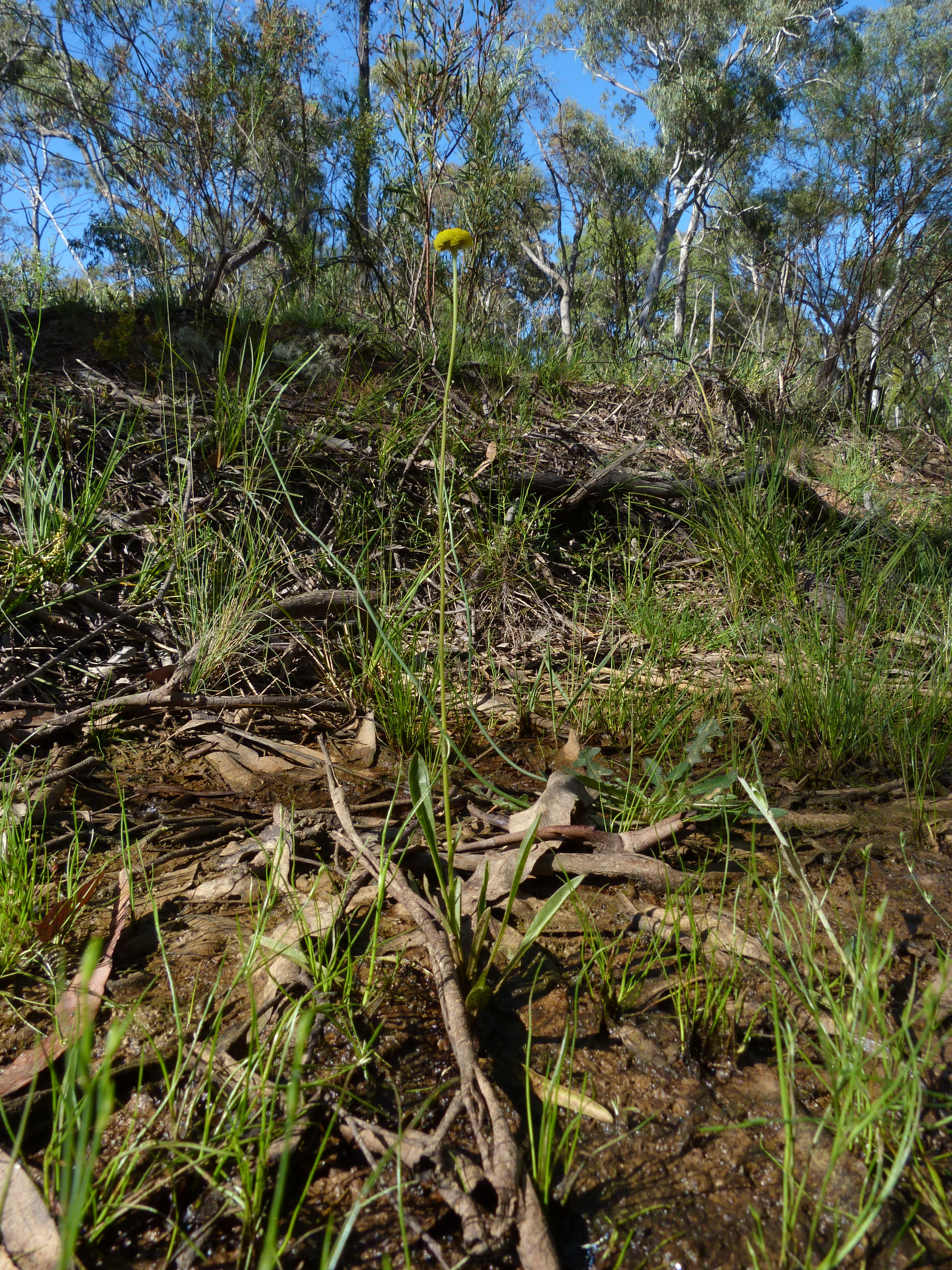 Craspedia variabilis J.Everett & Doust, Black Mountain, Canberra, ACT, 22 November 2010